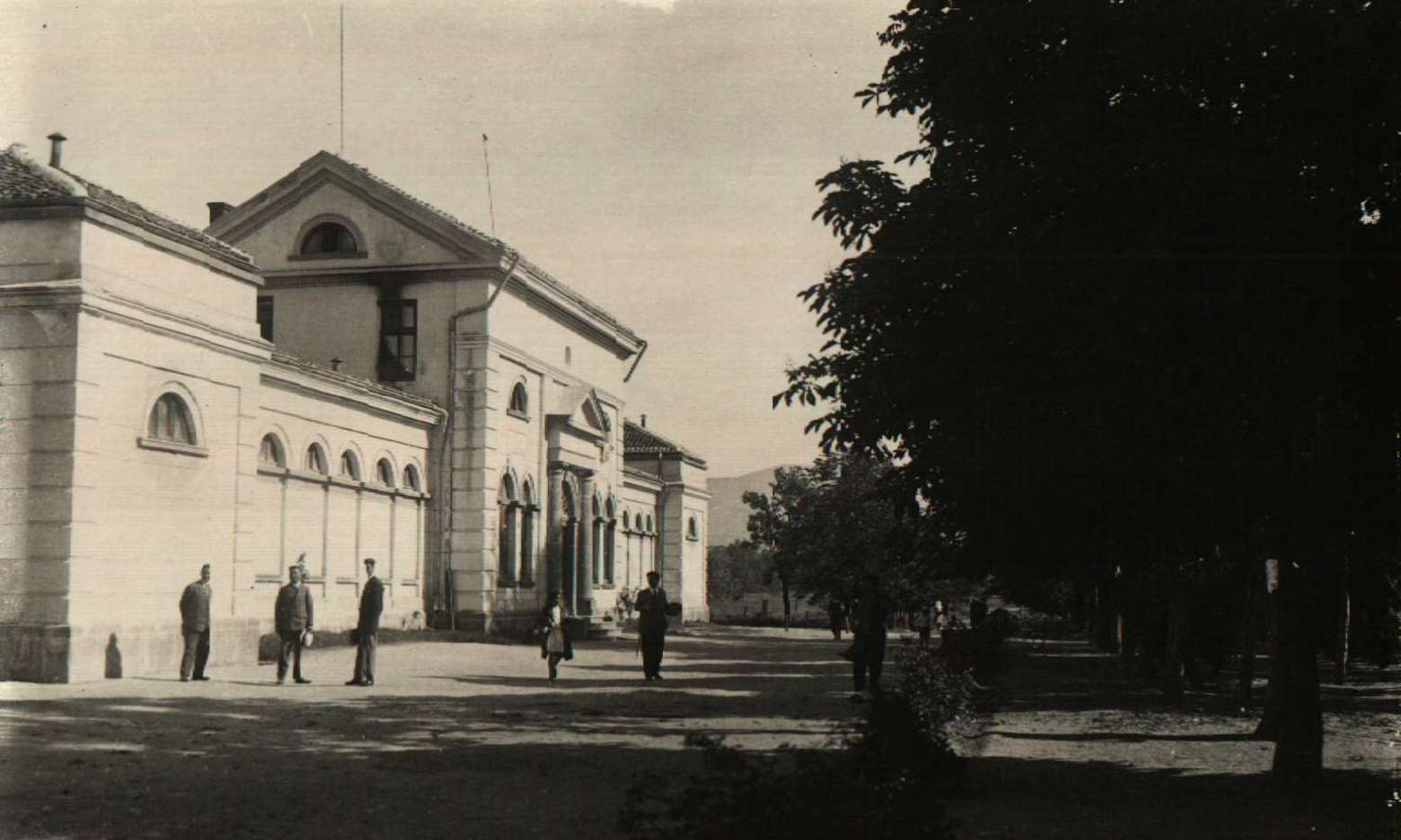 Mineral bath, Sliven, Bulgaria